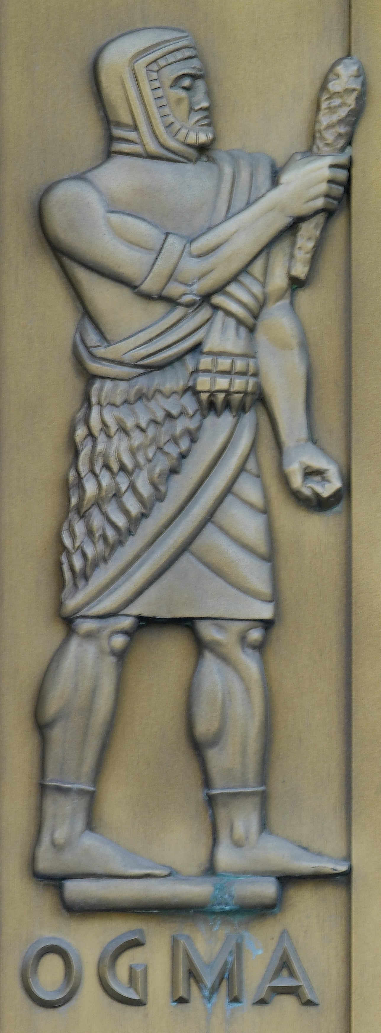 Ogma, sculpted bronze figure by Lee Lawrie. Door detail, east entrance, Library of Congress John Adams Building, Washington, D.C.